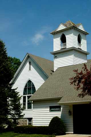 View of the Union Church in Lindenwood, Illinois.